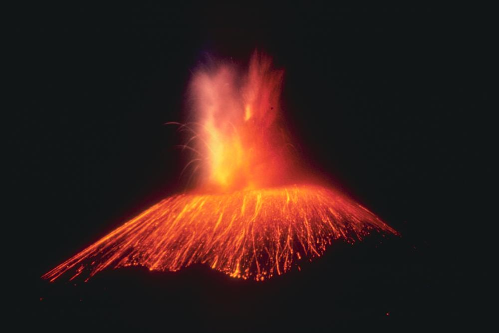 Paricutin, Mexico This slide taken in 1943 shows a spectacular view of an eruption of Paricutin at night. Glowing projectiles and pyroclastic fragments outline the conical shape of the volcano. The eruption consisted mostly of spheroidal bombs, lapilli, glassy cinder, and glassy ash formed by disintegration of the cinder.